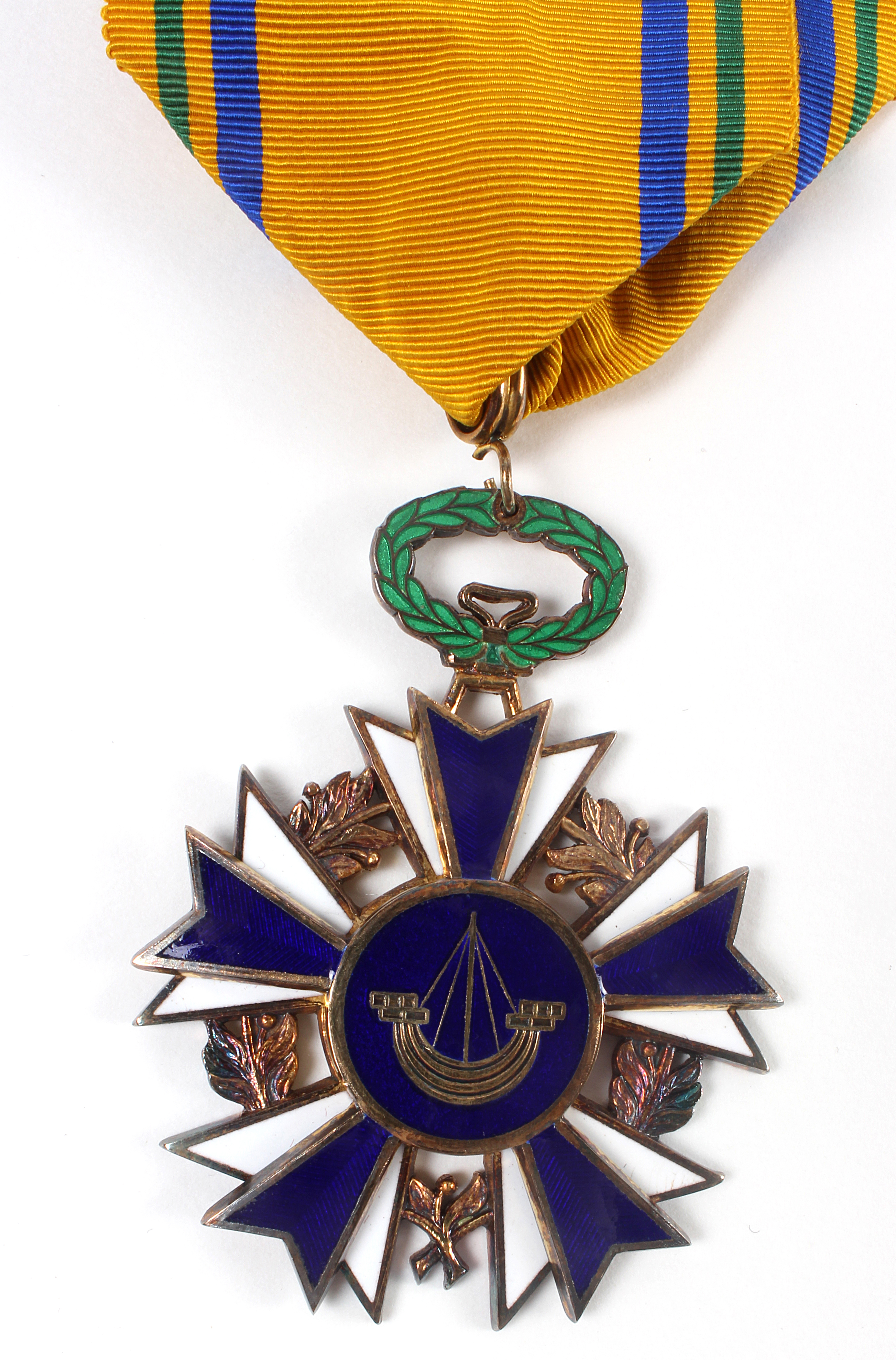 Kingdom of the Netherlands Commander of the Order of the Golden Ark badge of order, in gilt metal and enamel, on a neck ribbon case of issue